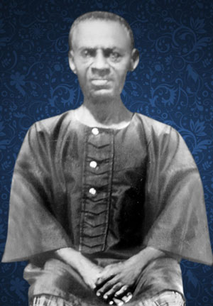 Portrait Chief Andre Akpan Inyang-Etoh (Akpan Igwe)